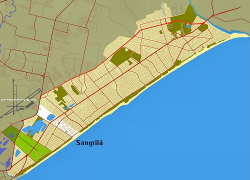 Location of Sangrilá in Ciudad de la Costa of Canelones Department, Uruguay.